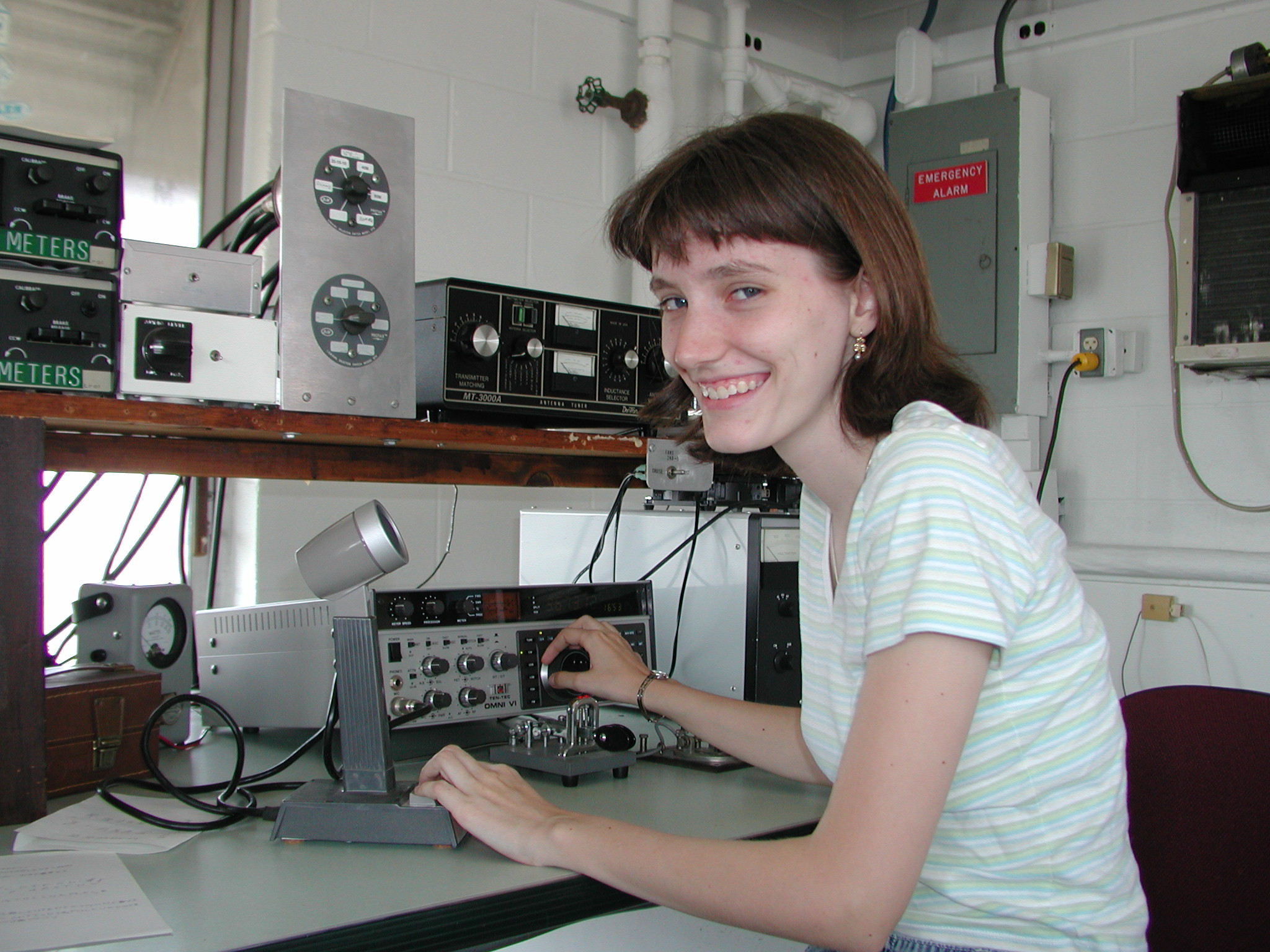 An amateur radio operator, Yvette Cendes, KB3HTS, at station W8EDU, 2005